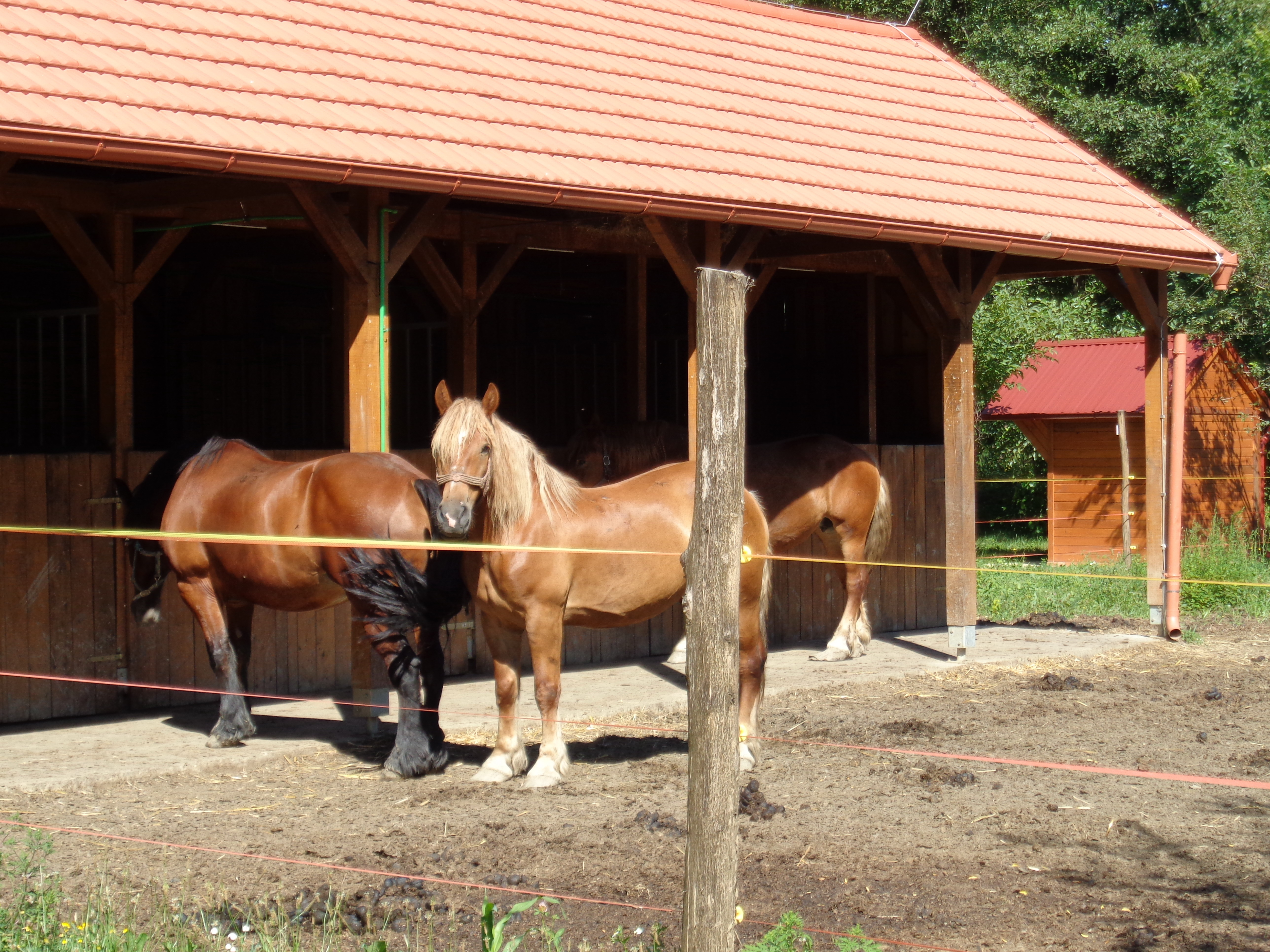 Ergela međimurskog konja = Medjimurie horse stud farm in Žabnik, Medjimurje County, northern Croatia